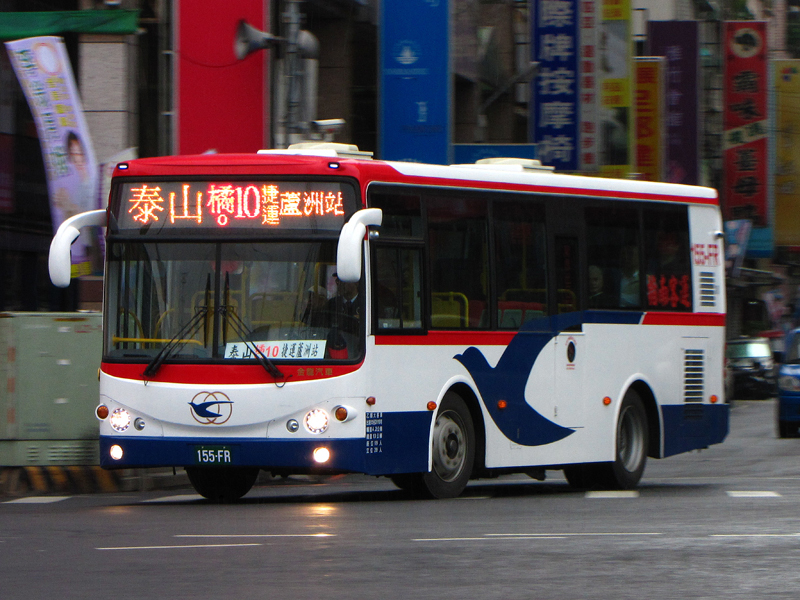 KINGLONG KL685021A1-2